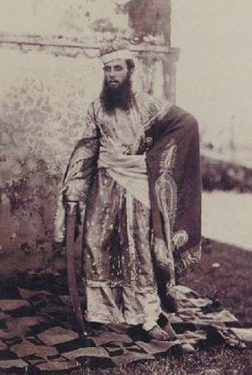 Louis Rousselet in court dress , 1865–1868, Albumen Print (detail)